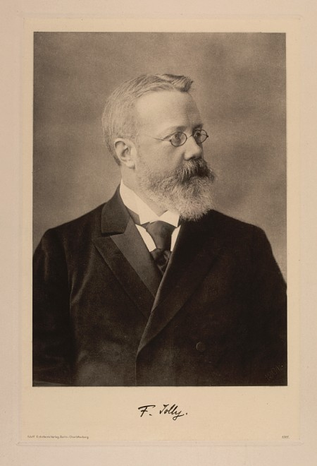 Friedrich Jolly